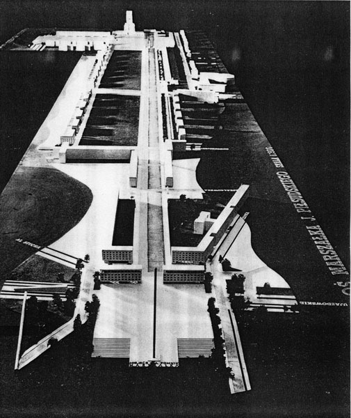 Aleja_Marszalka_J.Pilsudskiego.